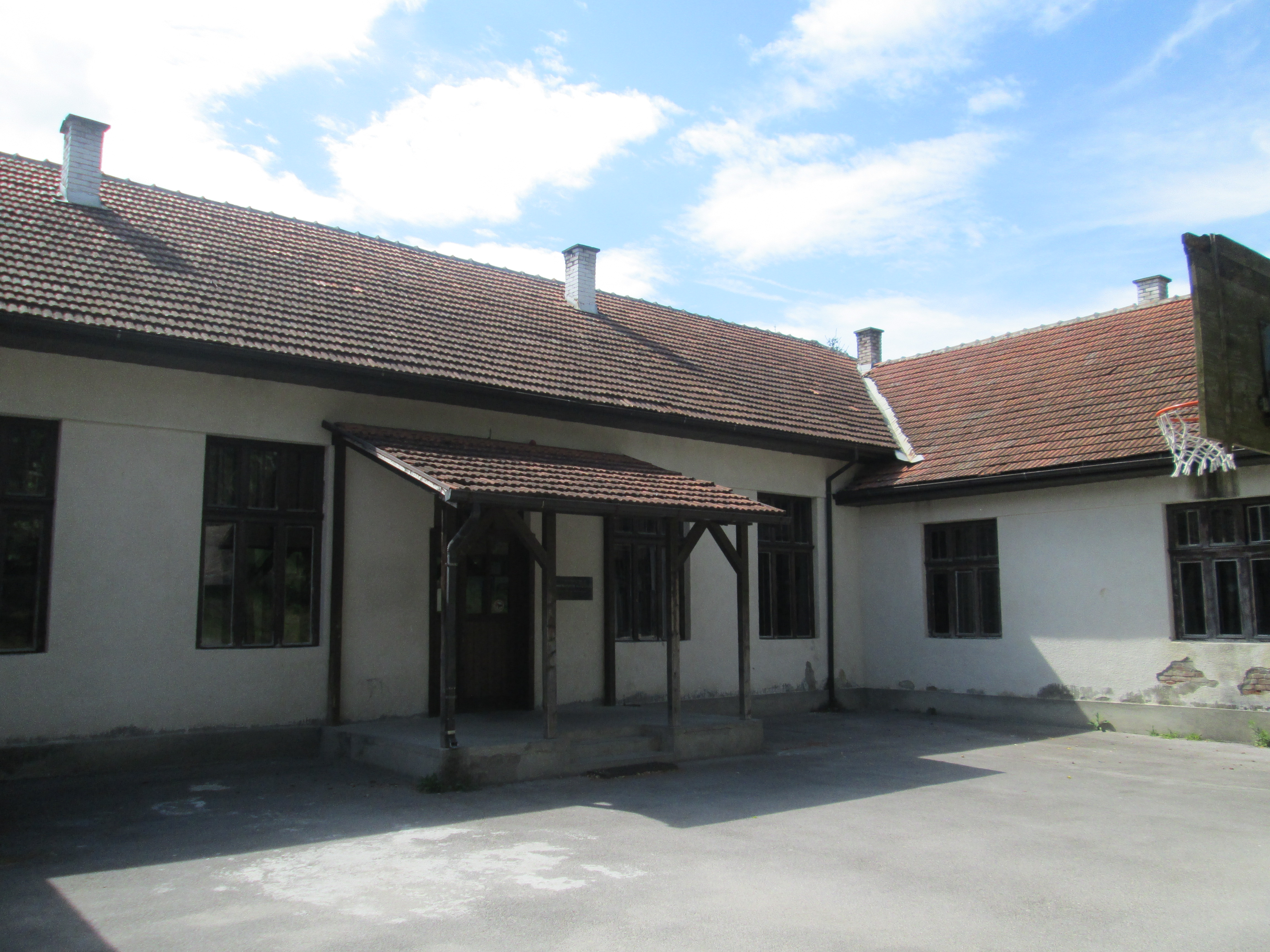 Primary school, Glumač Српски (ћирилица): Основна школа, Глумач